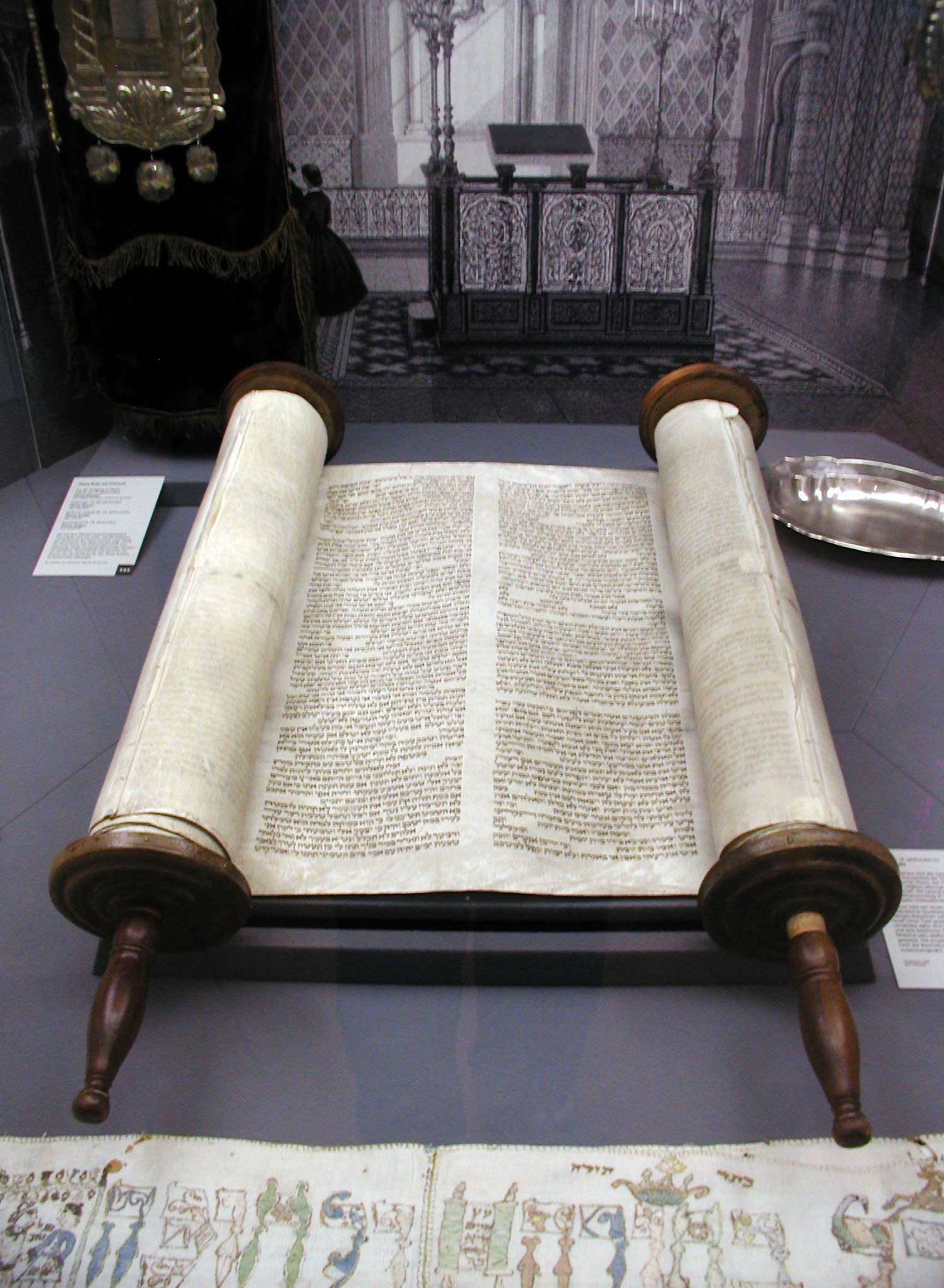 Museum exhibits representing a Torah at the former Glockengasse Synagogue, which was in Cologne but was completely destroyed. These are at the Kölnisches Stadtmuseum.